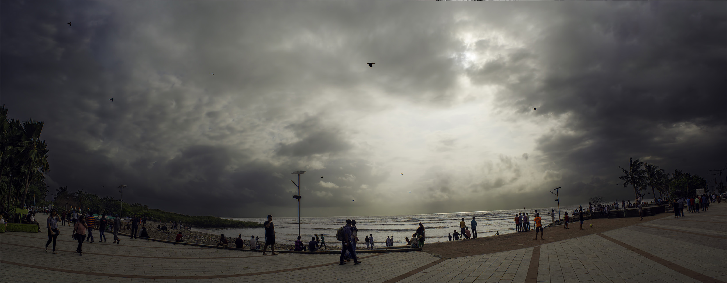 Carter Road Promenade is a 1.25 kilometre-long walkway along the sea on the west side of Bandra. For more interesting pictures, follow me on facebook , twitter , instagram and Google Plus .